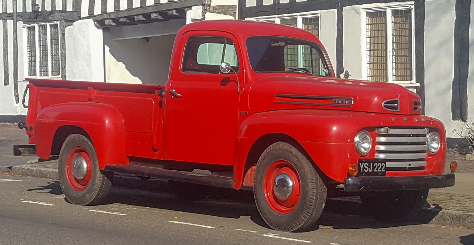 1949 Ford F-3 3.9 Front Taken in Warwick